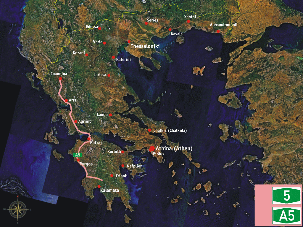 Course or track of Greek Motorway (avtokinetodromos) A5.